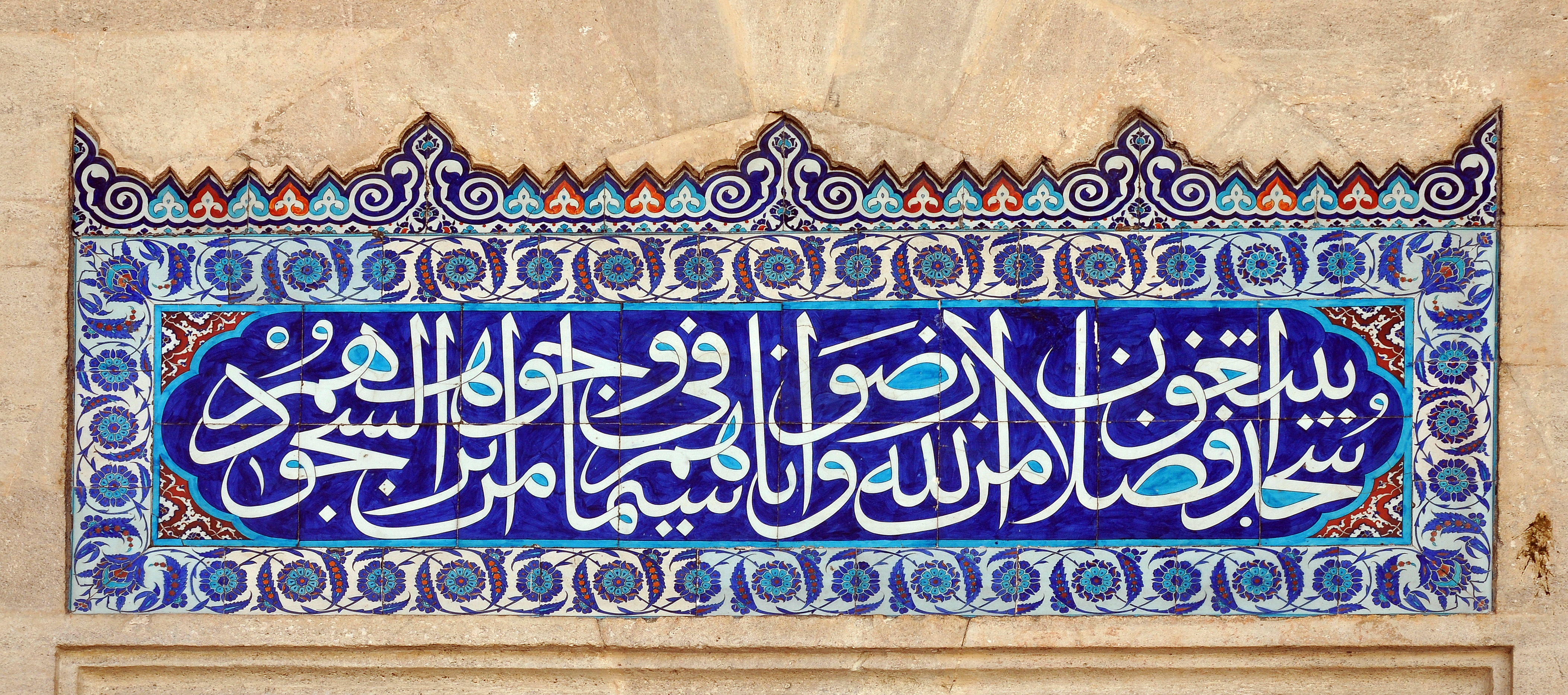 Tiles with part of an arabic inscriptions in the courtyard of the Süleymaniye Mosque in Istanbul, Turkey.